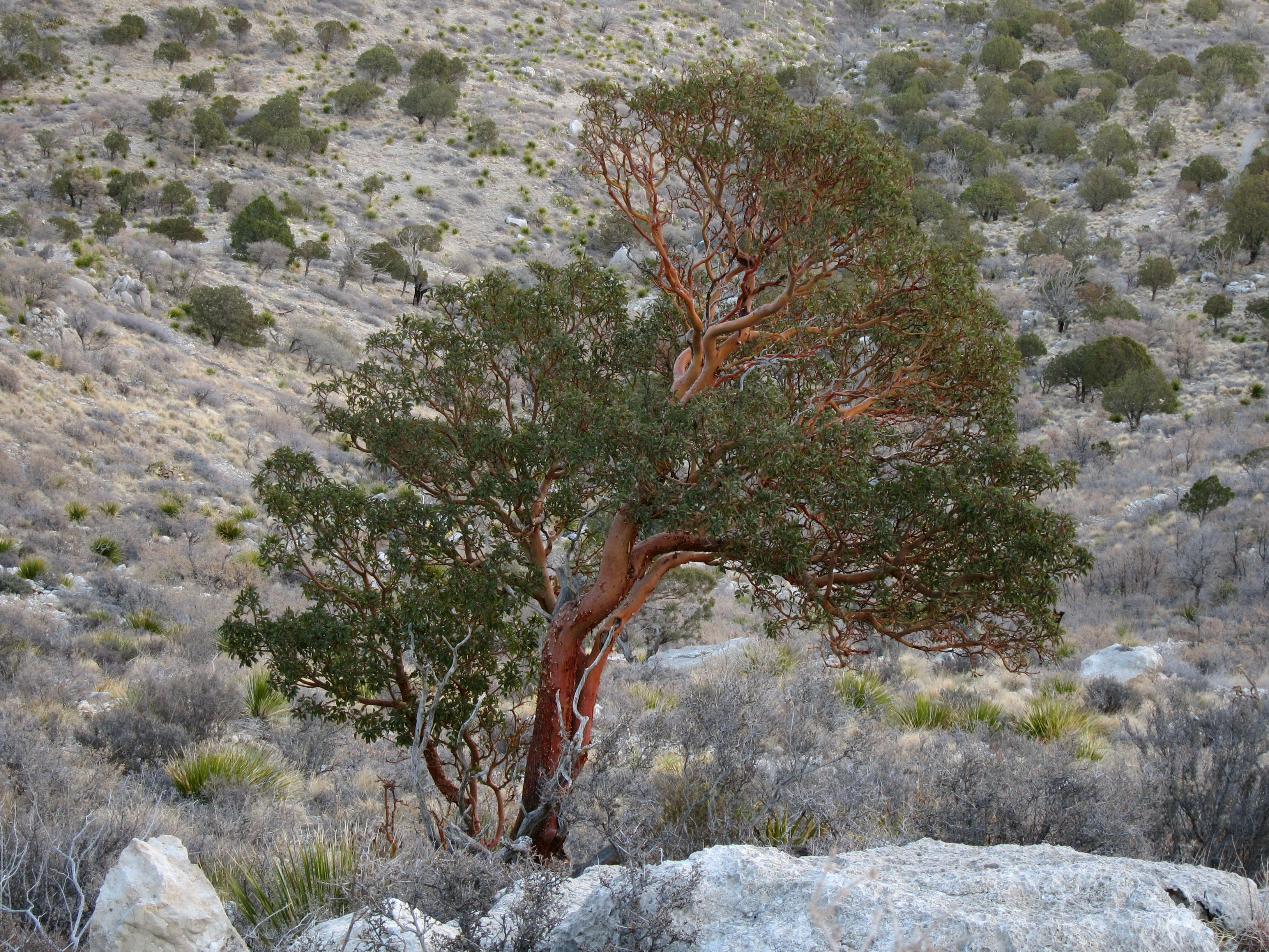 Texas Madrone Arbutus xalapensis on Guadalupe Peak Trail, Guadalupe Mountains National Park, Texas